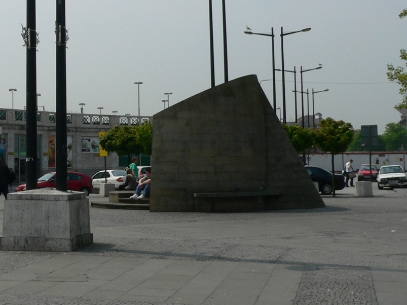 Cropped image of Cardiff Central Square and the western end of the main concourse building of Cardiff Central railway station. The large lettering on the front of the station leave no doubt as to the original constructor of the station - the Great Western Railway.